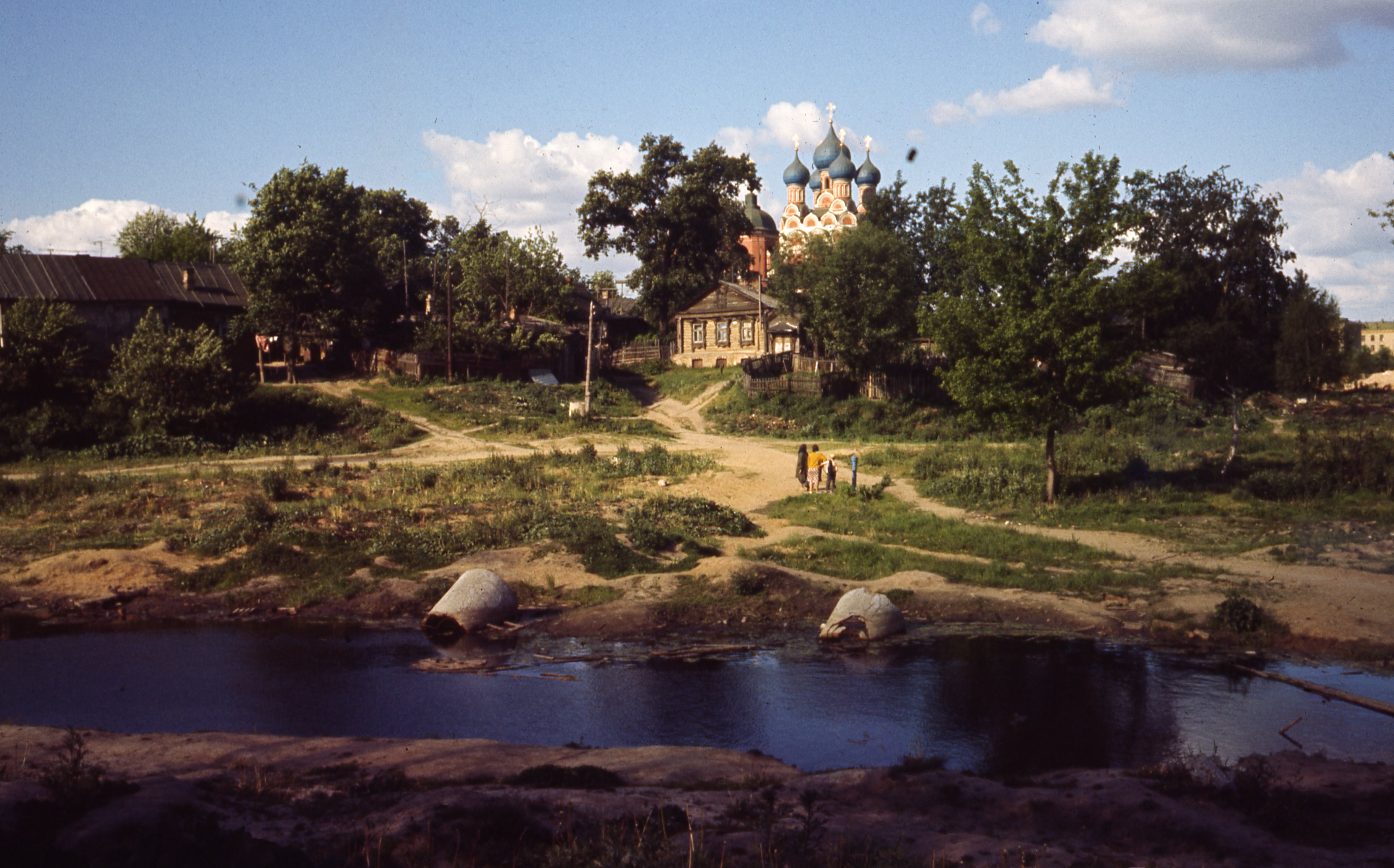 These photos were taken by Thomas T. Hammond during his trip to the Soviet Union. This specific image features the Tikhvinskaya Church and Kopytovka River in present-day Alexeyevsky District in Moscow..